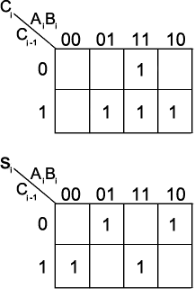 1-bit full-adder Karnaugh map